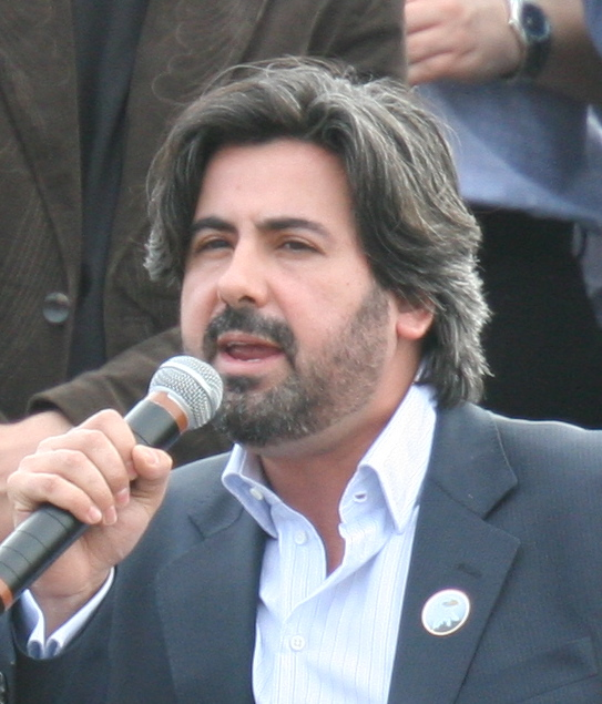 Pablo Rodriguez, Canadian politician. Photo taken at the march "Kyoto, Pour l'Espoir"